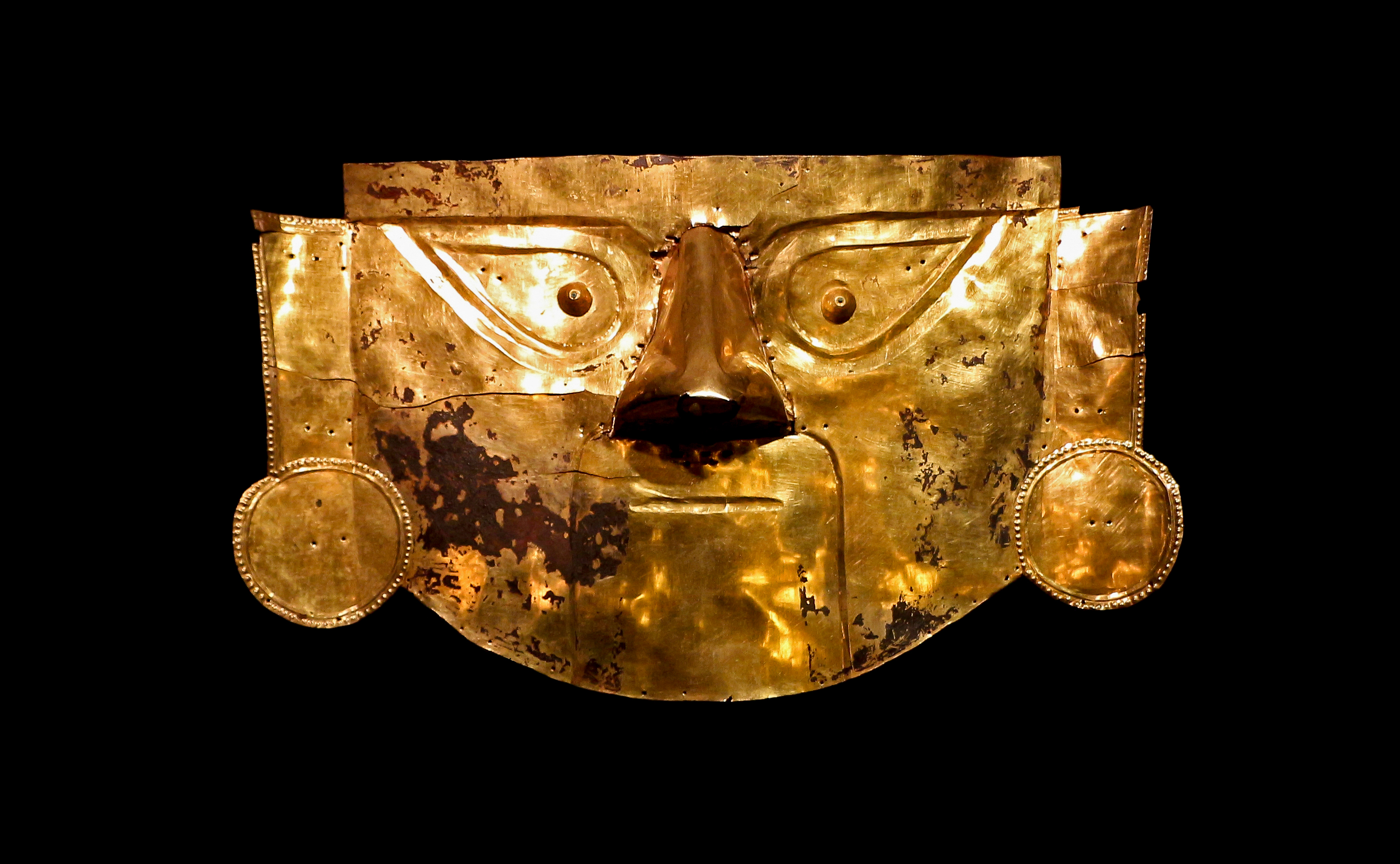 Lambayeque (Sican) funerary gold mask, Brüning Museum, Lambayeque, Peru